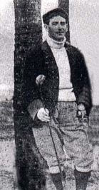 A circa 1895 photo of golf professional Willie Hoare.